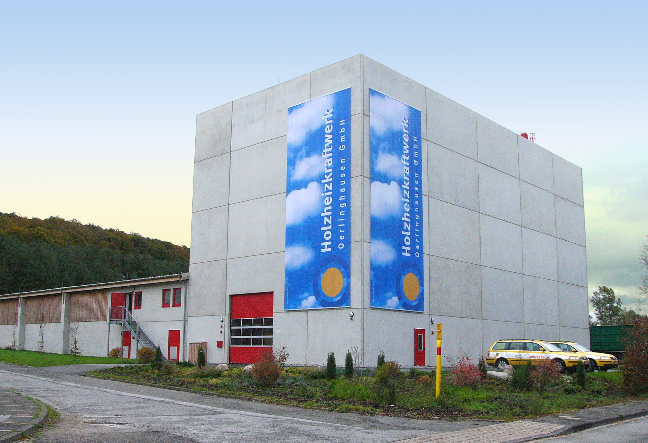 Wood Power Plant in Oerlinghausen, Germany